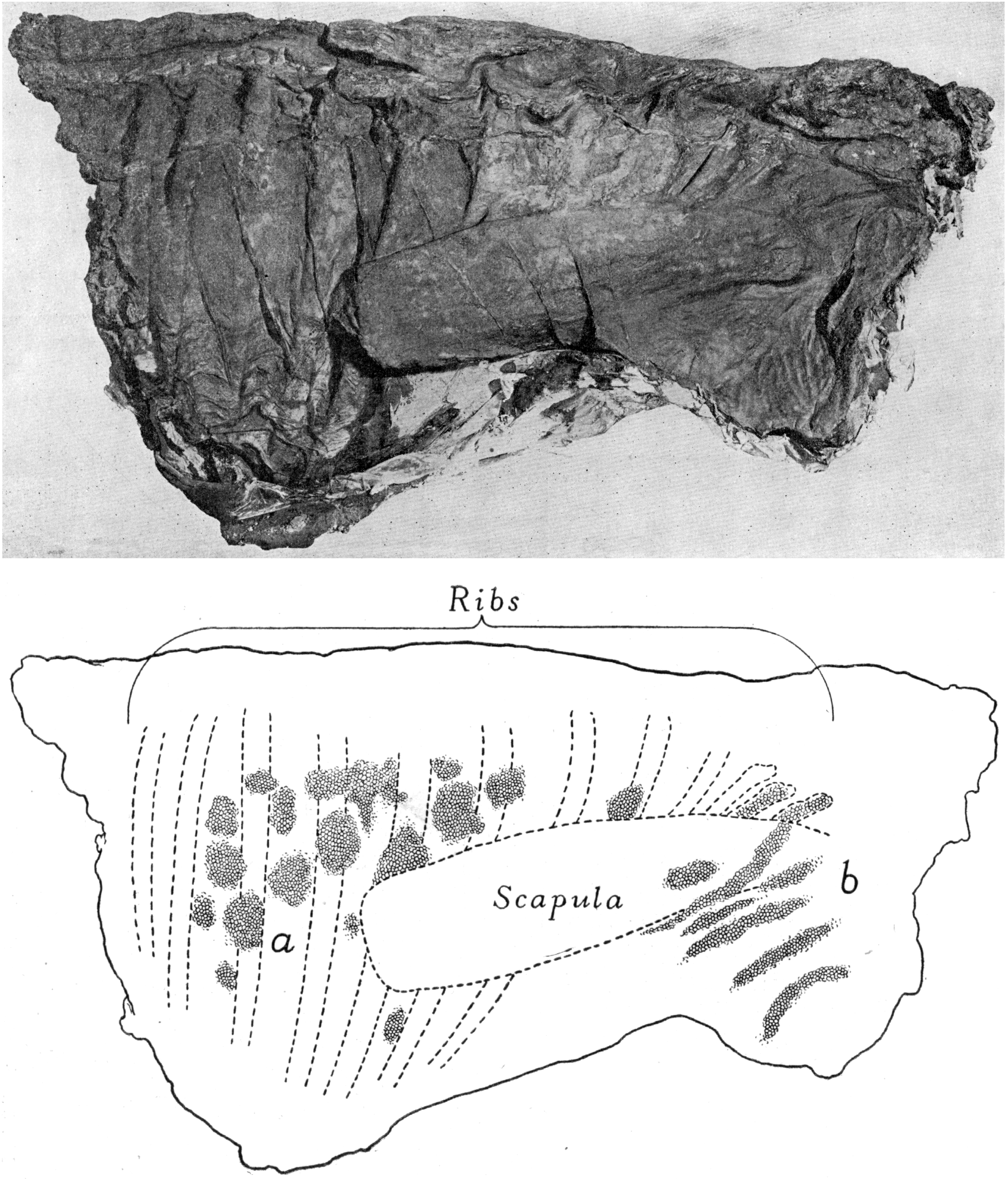 Thorax region of Edmontosaurus mummy AMNH 5060 showing skin impressions. Above: Photograph of region, from Osborn (1912, Fig. 6). Original caption: "Natural cast of foldings of the integument on the right side of the thorax of the Trachodon annectens 'mummy', showing close appression to the ribs and scapula. Amer. Mus. No. 5060." Below: Interpretive drawing of same region, from Osborn (1912, Fig. 6a). Original caption: "Key to Fig. 6. Showing distribution of large areas of rounded tubercles on the sides of the thorax: (a) rounded areas of pavement tubercles; (b) elongate areas of pavement tubercles above and in front of the anterior portion of the scapula."